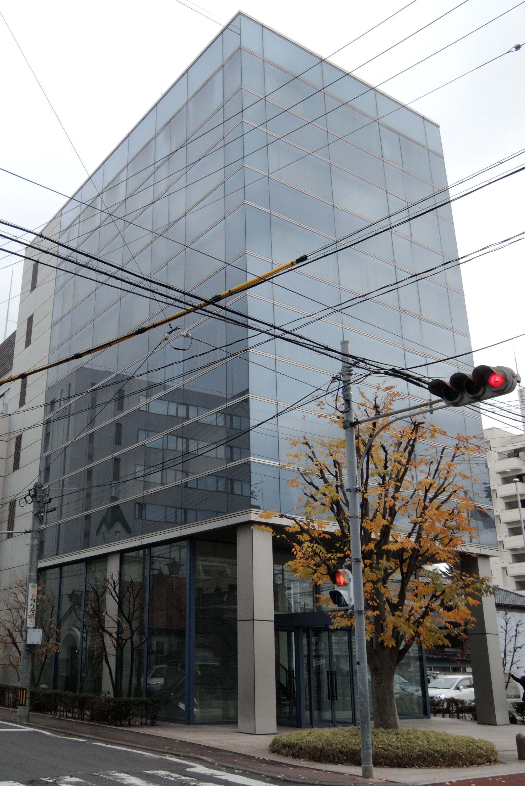 Headquarters of Kitano Construction Corporation,Nagano prefecture,Japan